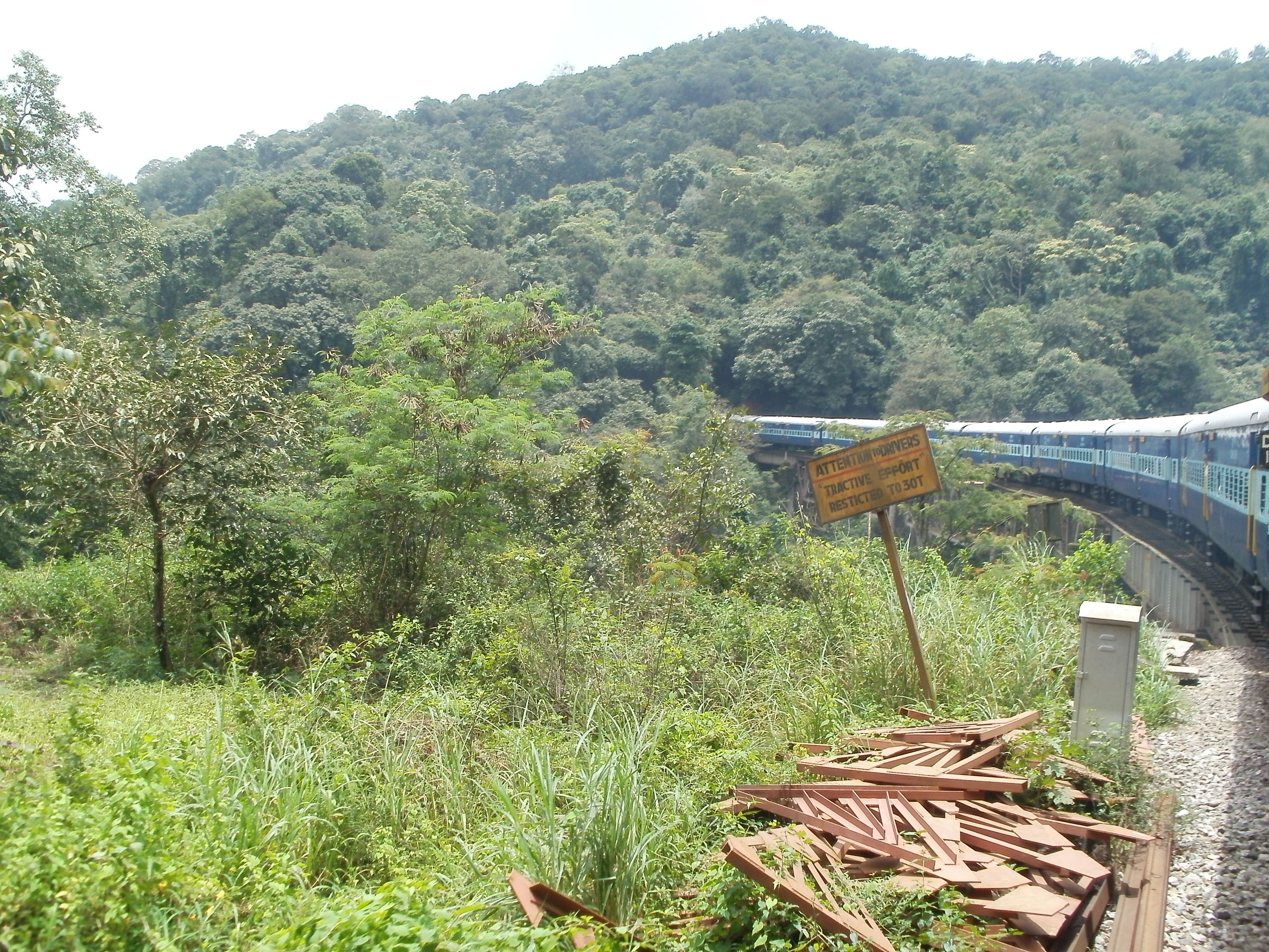 These are random shots from a train places are described in Green_Route